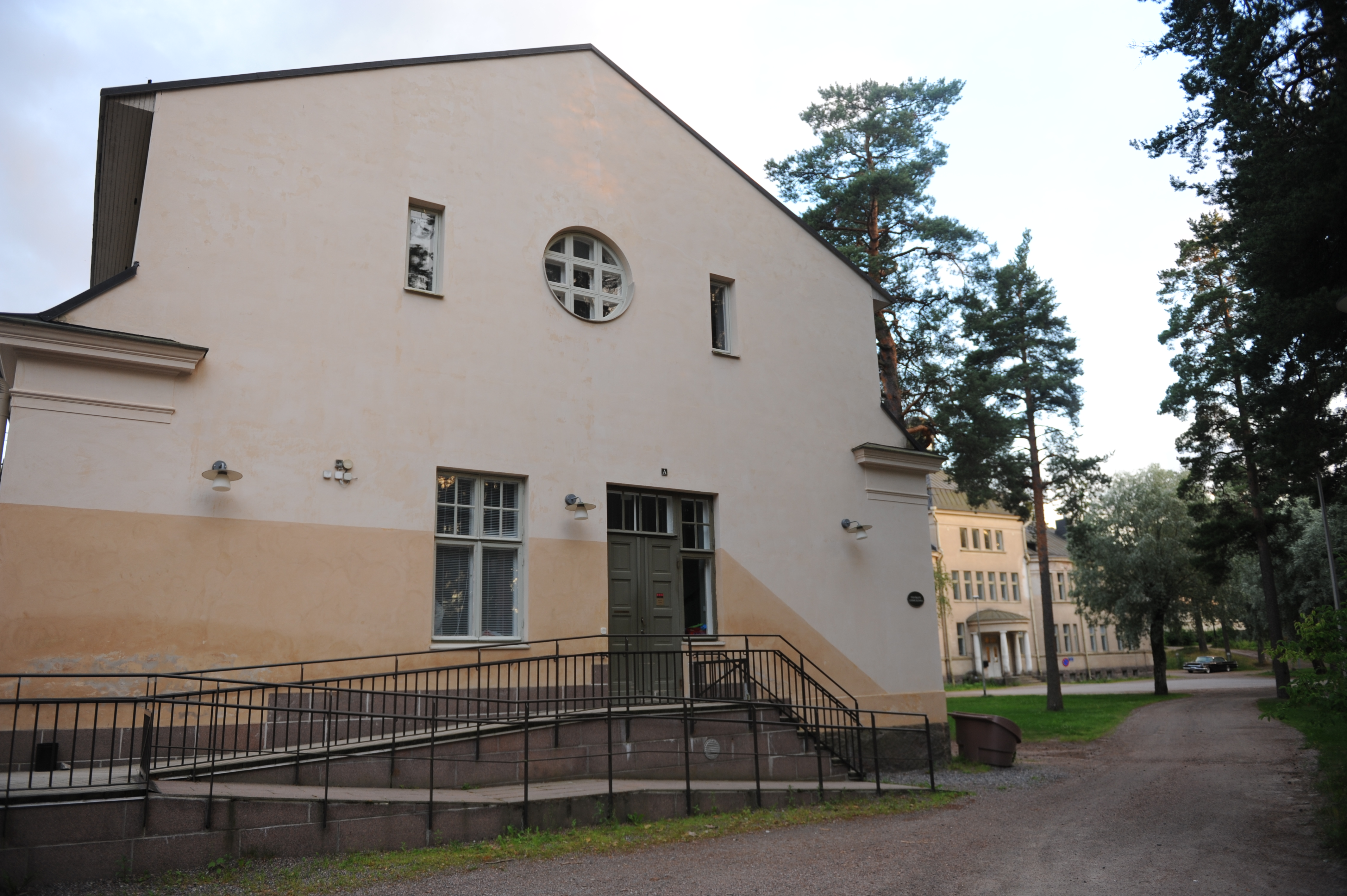 Nikkilän sairaala was a psychiatric hospital in Sipoo, Finland.